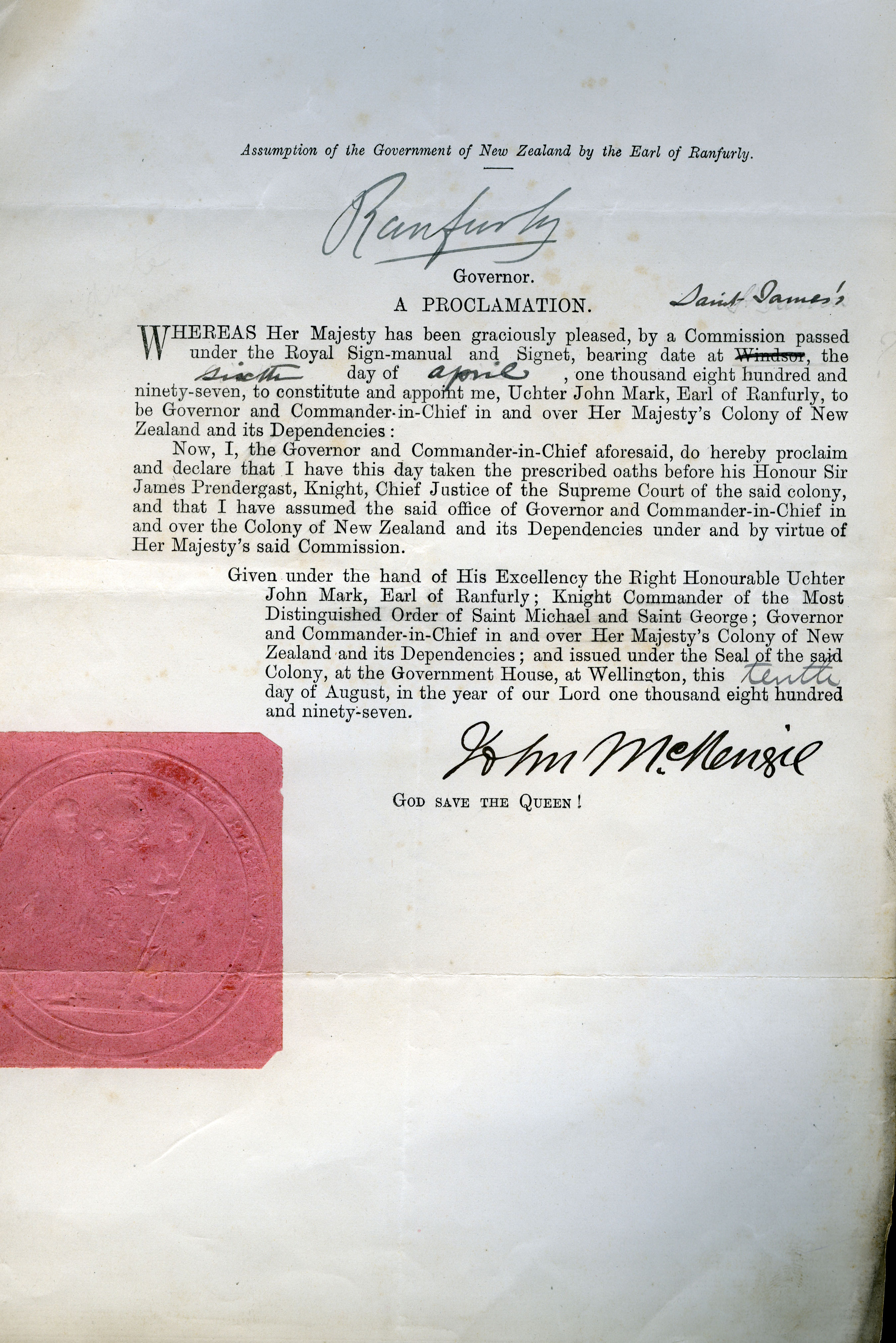 On August 10 1897 Lord Ranfurly took office as Governor of New Zealand. Uchter John Mark Knox was born in Guernsey, the second son of Thomas Knox, 3rd Earl of Ranfurly, by his wife Harriet, daughter of John Rimmington, of Broomhead Hall, Yorkshire. Becoming a cadet on board H.M.S. Britannia, he passed for the Royal Navy, but, giving up a naval career, entered Trinity College, Cambridge, at the age of eighteen. He was appointed to succeed The Earl of Glasgow as Governor of New Zealand on 6 April 1897, assuming office on 10 August. Lord Ranfurly became Honorary Colonel of the 1st Wellington Battalion (1898) and of the 1st South Canterbury Mounted Rifles (1902). He was created a Knight Grand Cross of the Order of St Michael and St George (GCMG) in June 1901, on the occasion of the visit of TRH the Duke and Duchess of Cornwall and York (later King George V and Queen Mary) to New Zealand. His term ended on 19 June 1904, when he personally handed over office to Lord Plunket. He is remembered for his donation of the Ranfurly Shield, a New Zealand sporting trophy. The item shown here in the proclamation issued on August 10 1897 marking the start of Lord Ranfurly’s term as Governor of New Zealand. Reference: ACGO 8333 IA1 924 (19) 1904/2787 For further enquiries please For updates on our On This Day series and news from Archives New Zealand, follow us on Twitter Material from Archives New Zealand